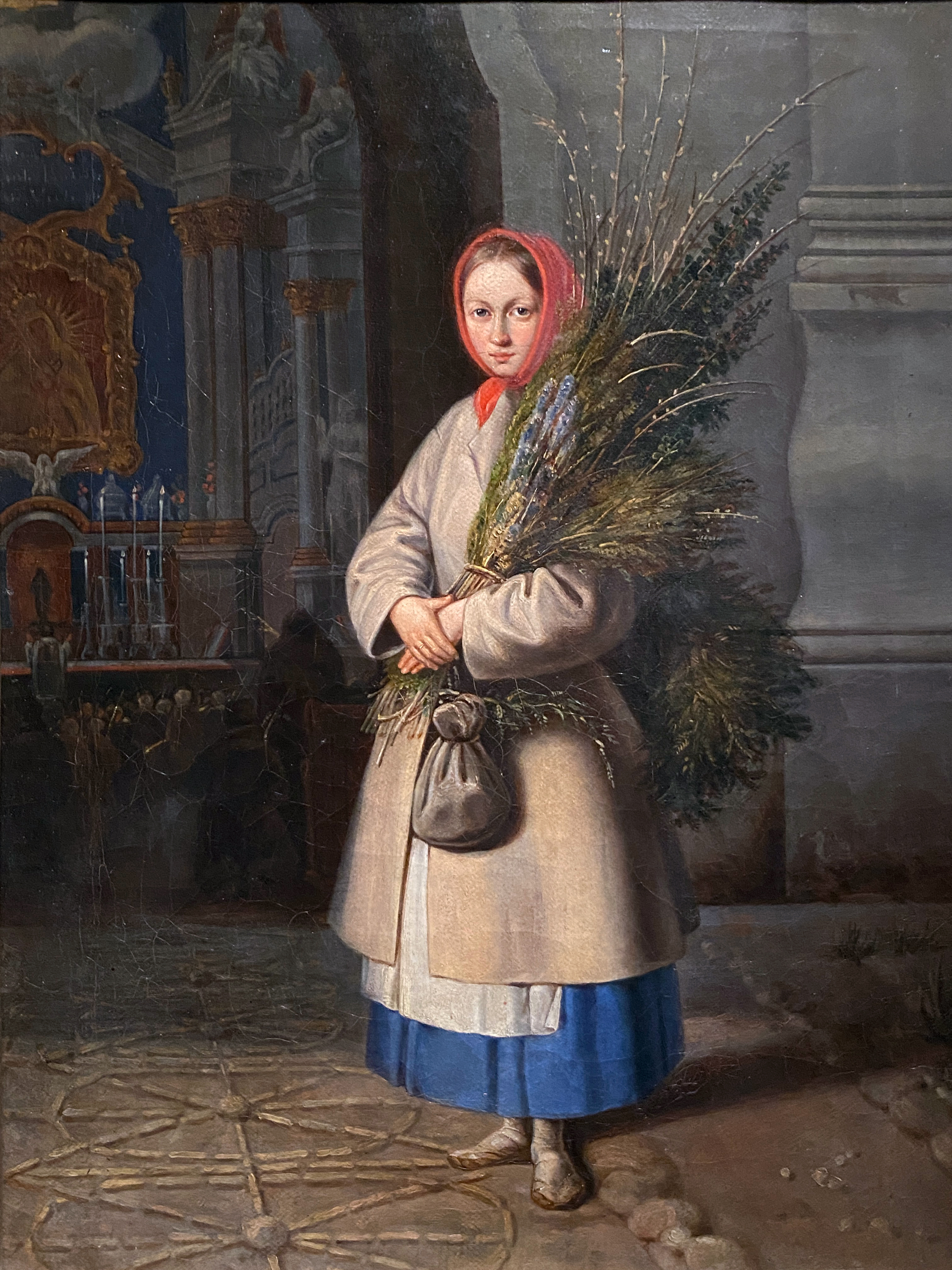 Litvinka with willows (translated with Google tool)label QS:Lru,"Литвинка с вербами" label QS:Len,"Litvinka with willows (translated with Google tool)" label QS:Lpl,"Litwinka z wierzbami" label QS:Lbe-tarask,"Ліцьвінка зь вербамі" label QS:Llt,"Lietuvaitė su verbomis"